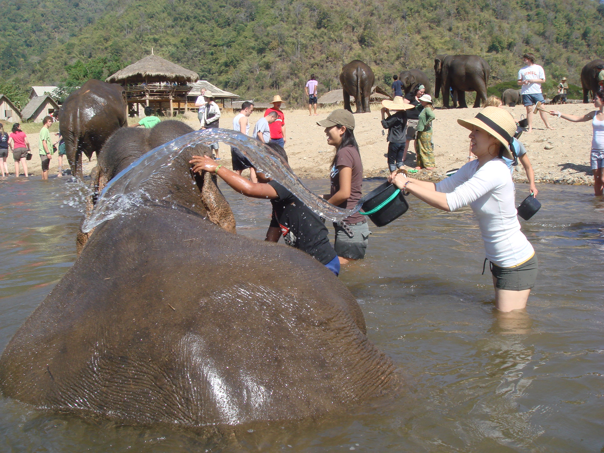 elephant washing